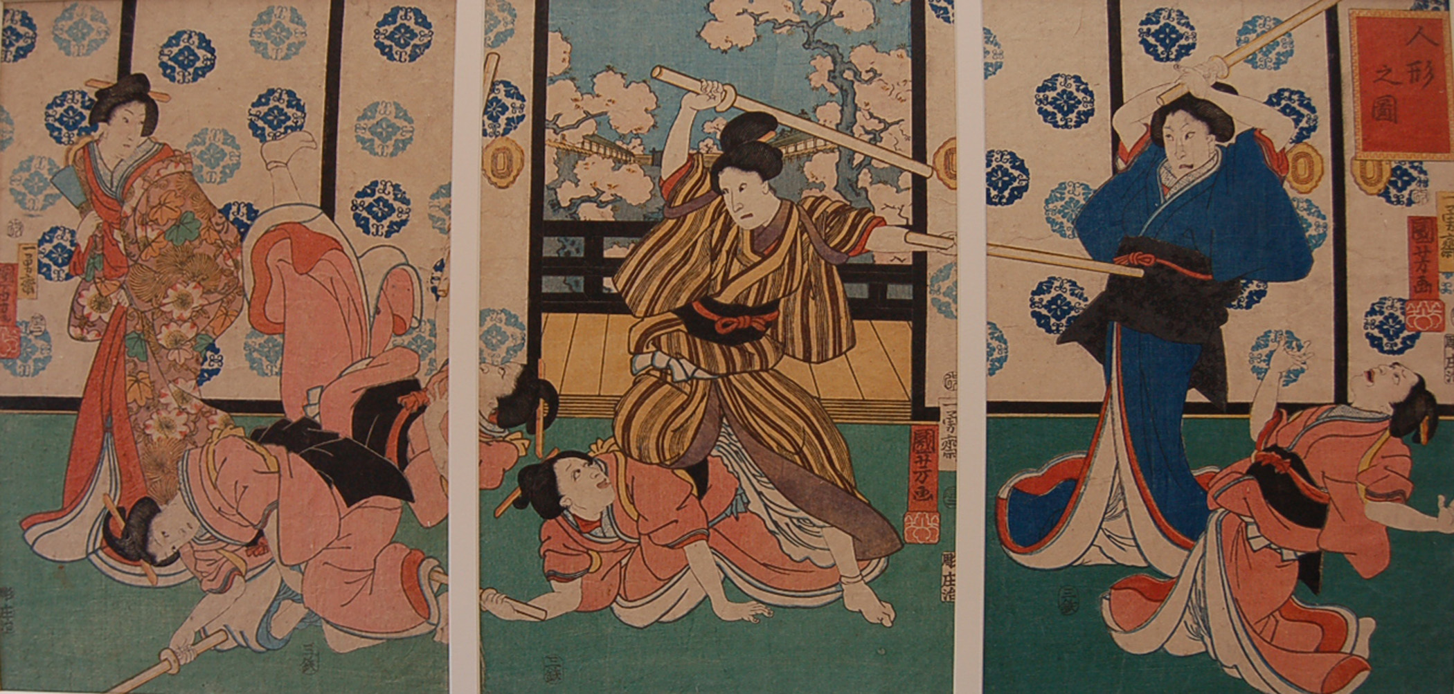 Women Kendo Fencing. Ukiyo-e by Utagawa Kuniyoshi (1797-1861).